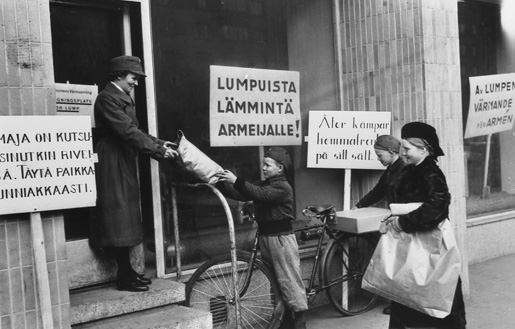 Collection of rags to warm the soldiers in the Winter War.